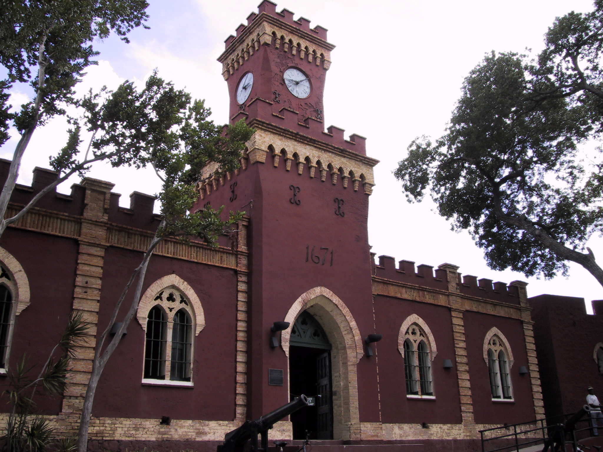 Fort Christian — at Saint Thomas Harbor in Charlotte Amalie, on St. Thomas island in the U.S. Virgin Islands. The mid-17th century colonial Danish fort is the oldest structure in the United States Virgin Islands. On the National Register of Historic Places in the United States Virgin Islands.